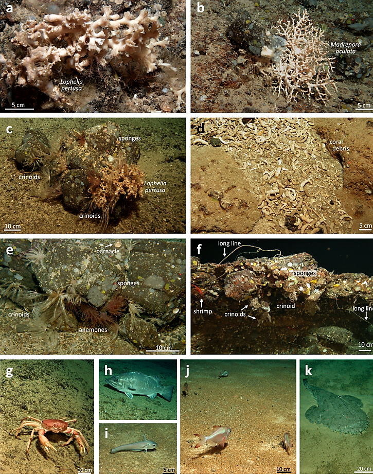 ROV still images showing the variety of megafauna present on Coral Patch seamount: (a) Lophelia pertusa colonised by hydrozoans and crinoids; (b) Madrepora oculata; (c) Lophelia pertusa, crinoids and sponges colonising a cobble-sized rock; (d) coral rubble accumulation made up of dendrophylliid and solitary coral species; (e) crinoids,anemones and sponges on bedrock; (f) fishing line entangled with a rocky slab; (g) Geryon cf. longipeson on bedrock; (h) Polyprion americanus; (i) Coelorinchus sp.; (j) Hoplostethus mediterraneus; (k) Lophius budegassa.